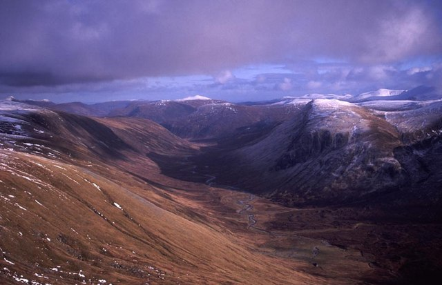 Gleann Fhiodhaig Glean Fhiodhaig from the summit of Sgurr nan Ceannaichean on Fuji Sensia 400.